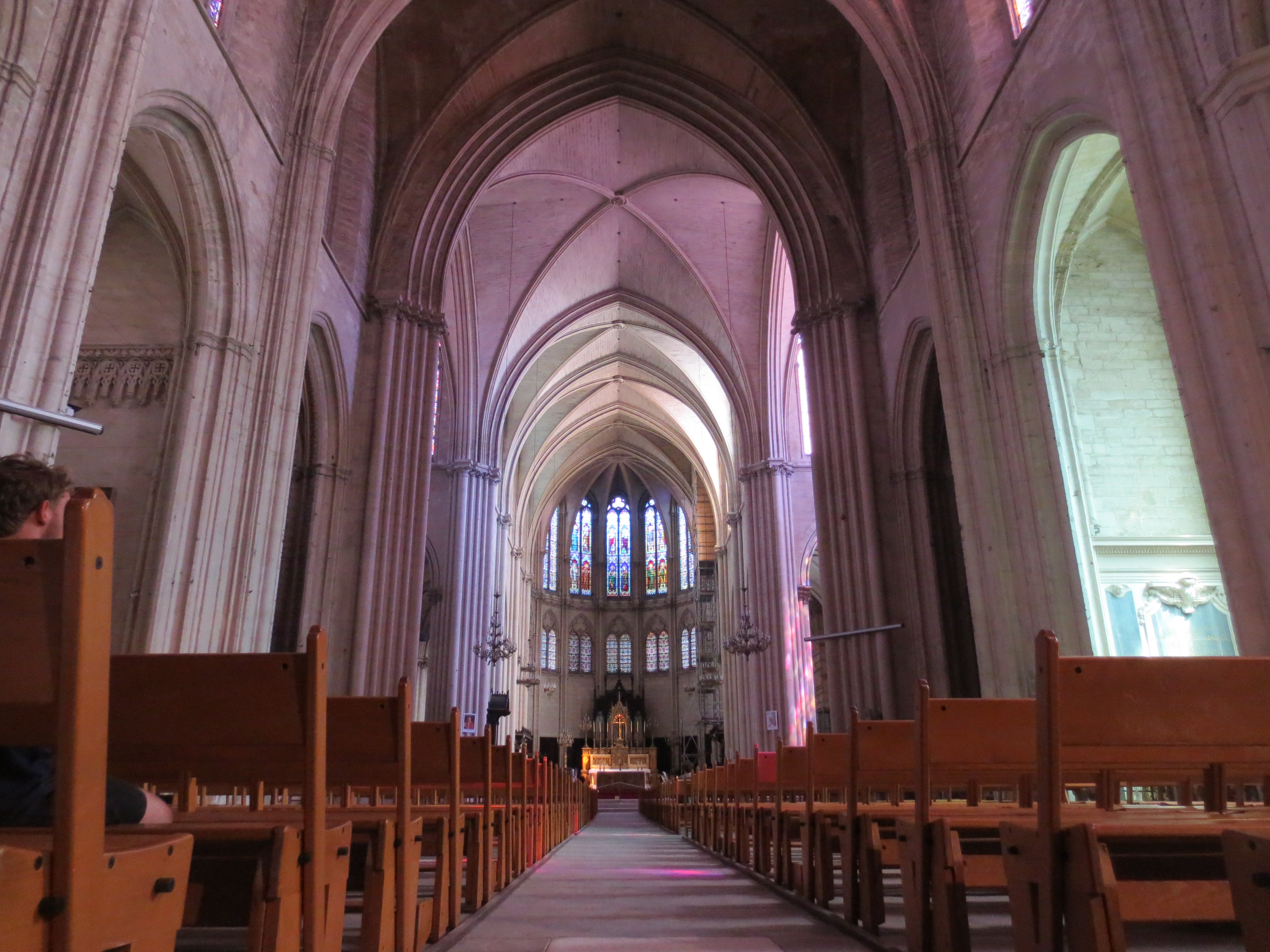 Interior of the St Pierre Cathedral in Montpellier